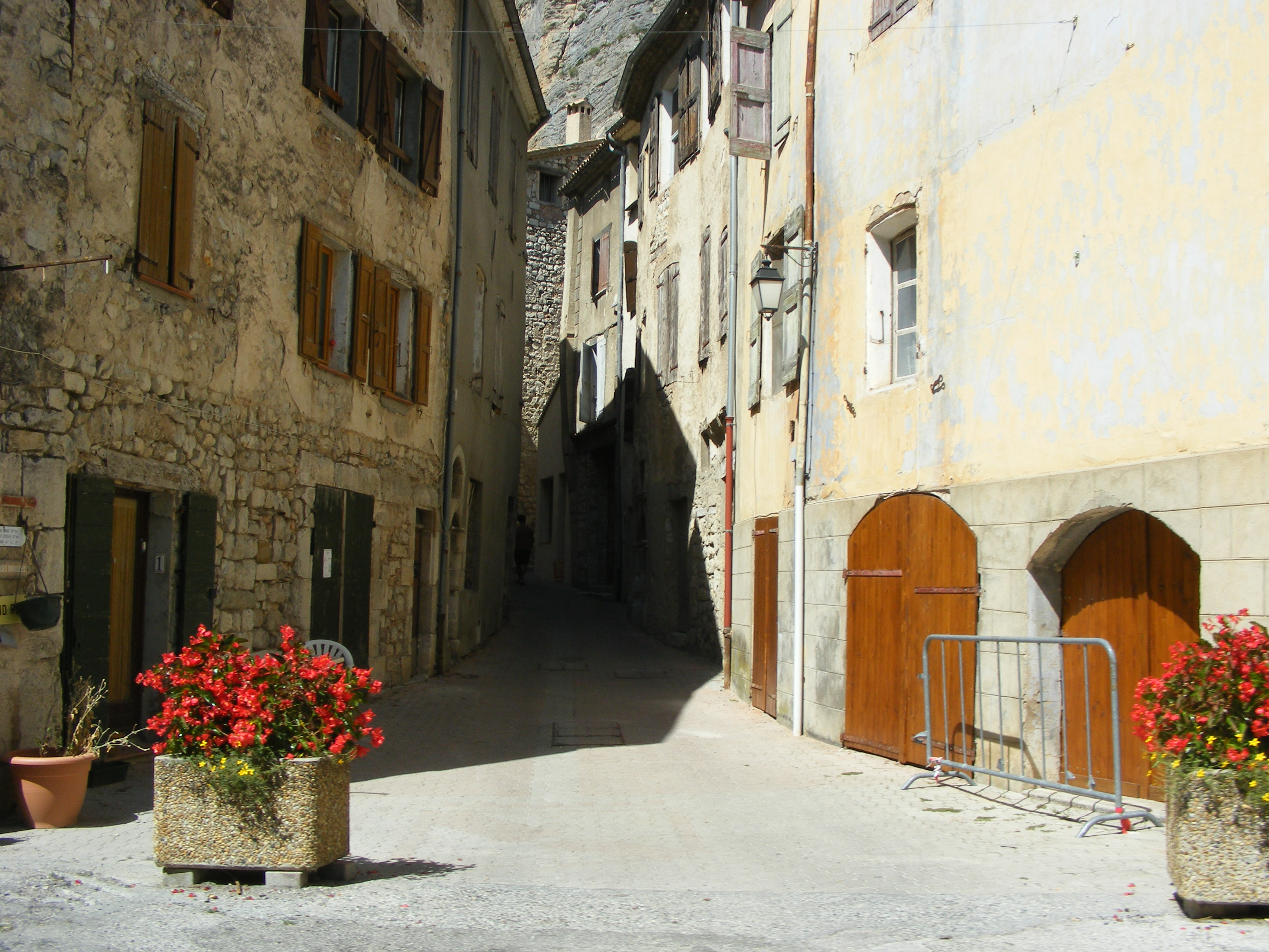 Street in Orpierre, France